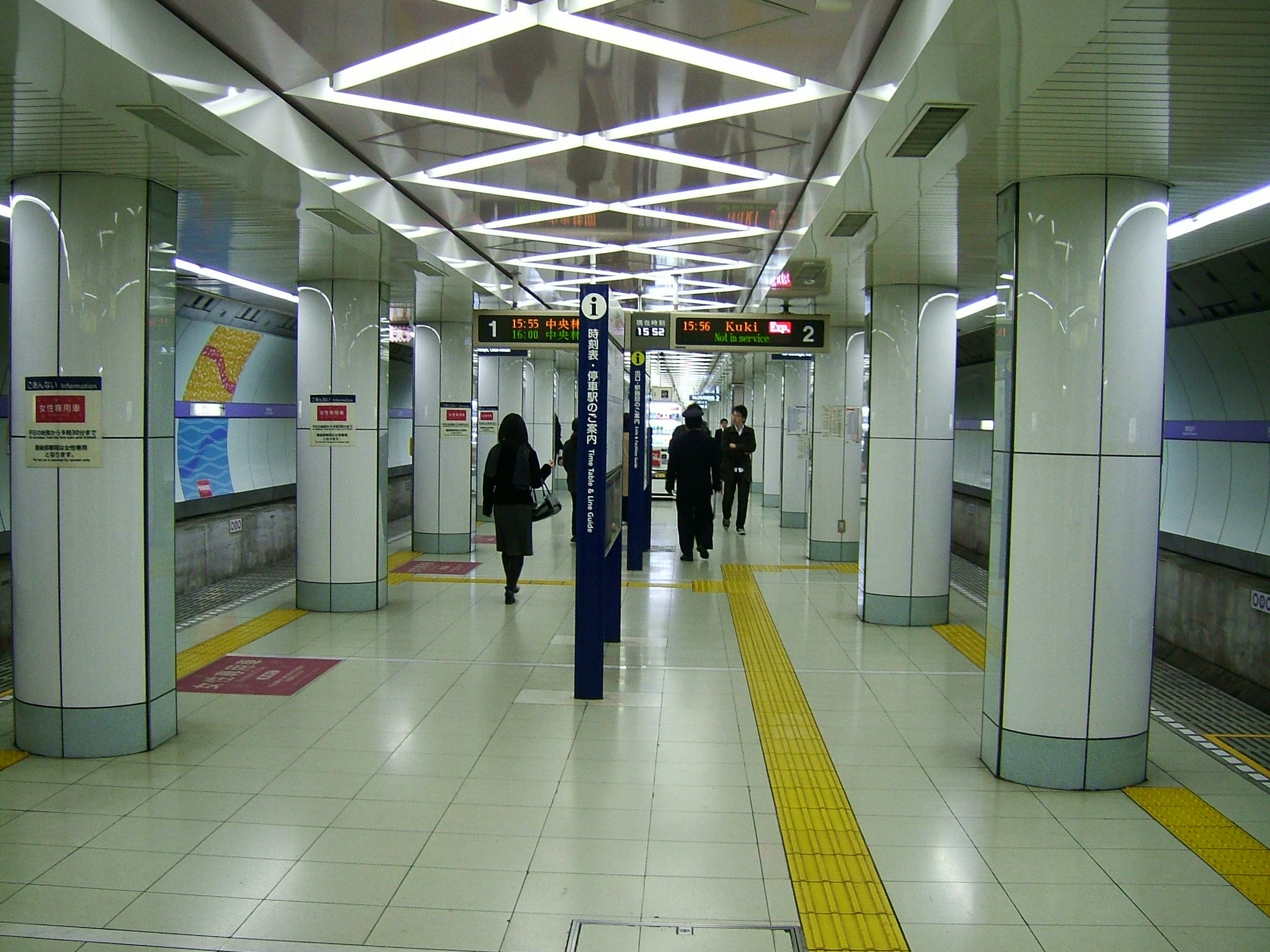 The platform at Kiyosumi Shirakawa Station on the Tokyo Metro Hanzomon Line